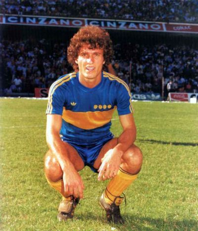 Oscar Ruggeri while playing for Boca Juniors in 1981.